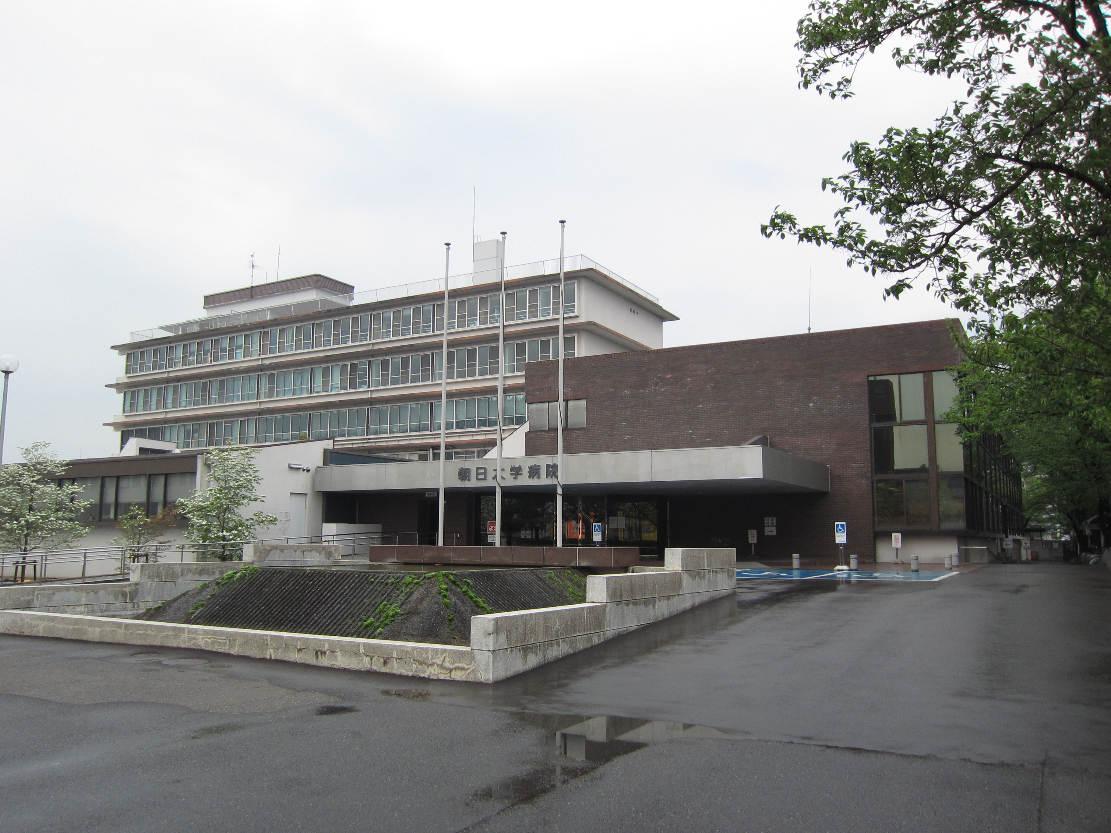 Asahi University Hospital